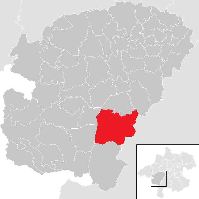 District Vöcklabruck